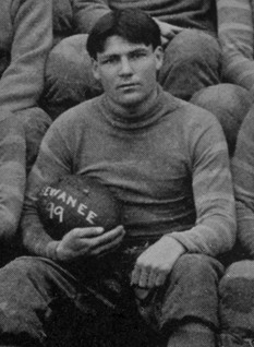 Sewanee captain and running back during undefeated 1899 season Henry Seibels